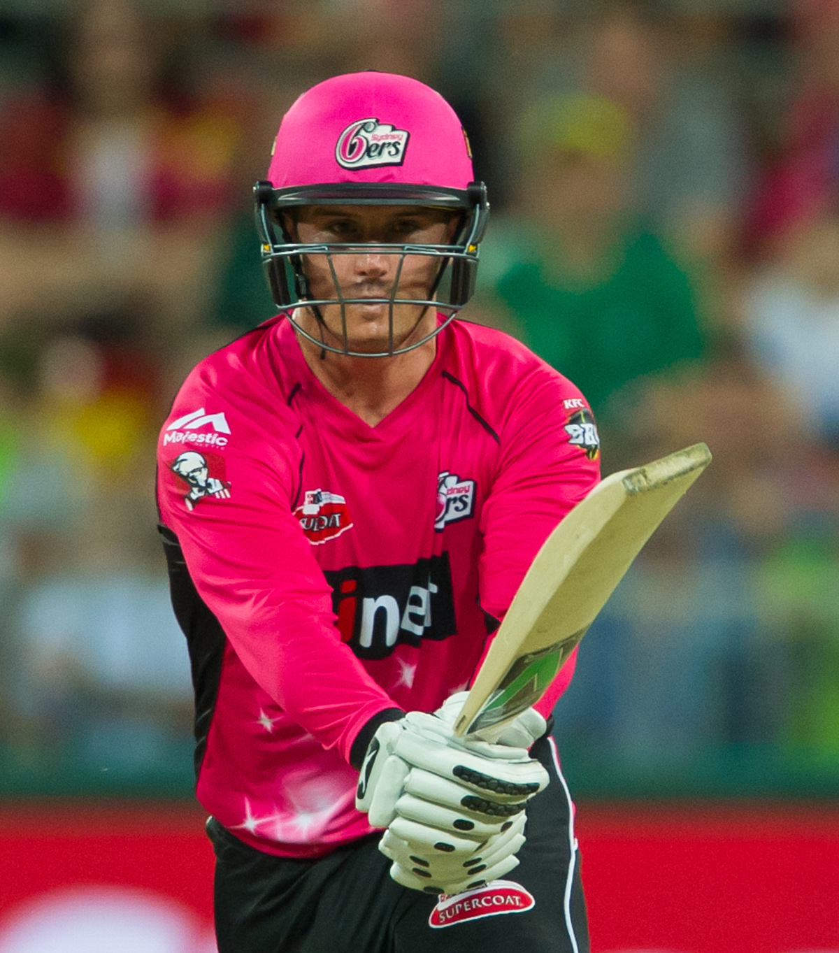 Jason Roy playing for the Sydney Sixers in the Sydney Smash